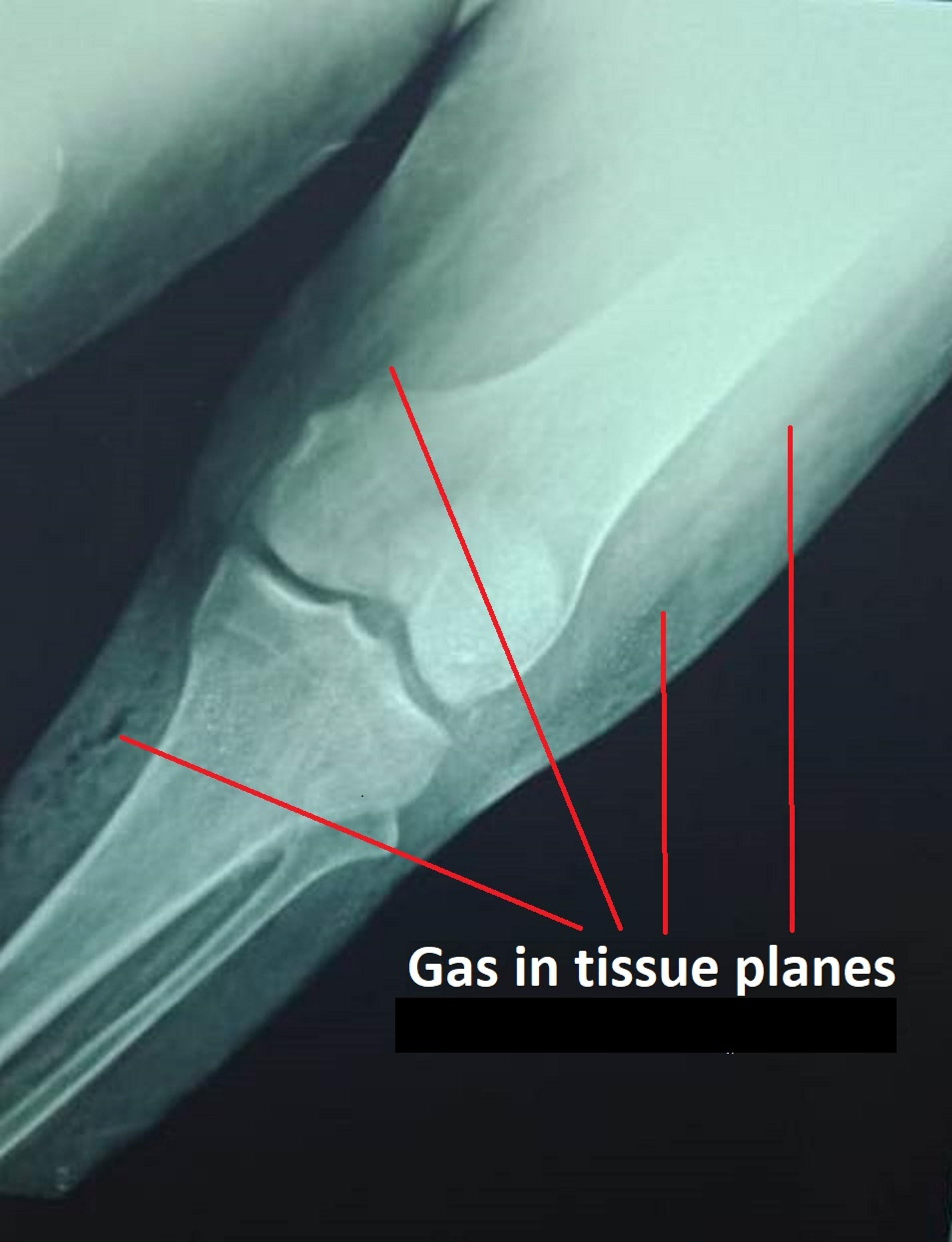 Plain X-Ray of a patient suffering from gas gangrene of left leg.